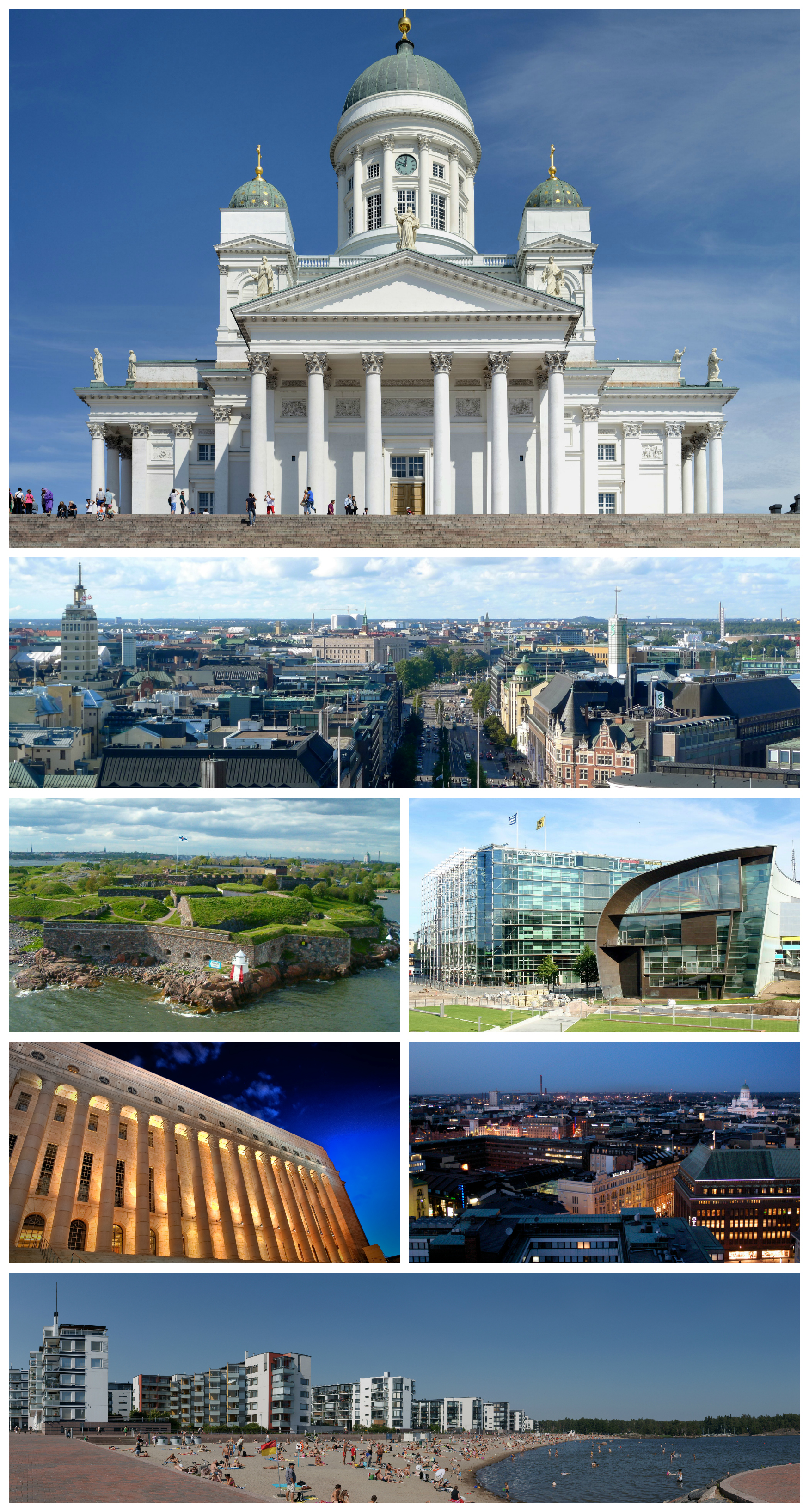 A montage of Helsinki city